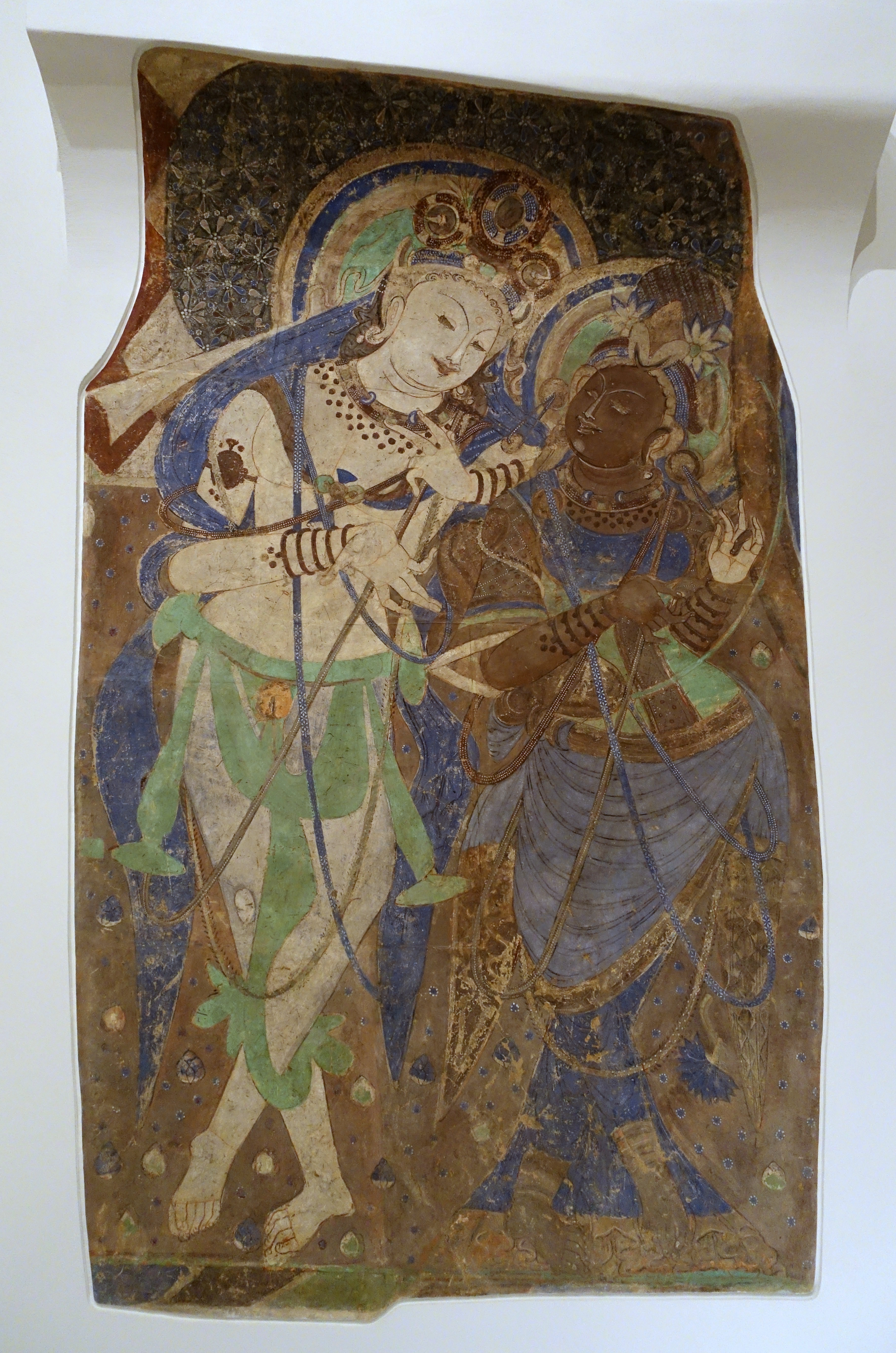 Exhibit in the Ethnological Museum, Berlin, Germany.